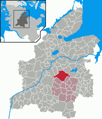 Locator maps of municipalities in Schleswig-Holstein - District Rendsburg-Eckernförde